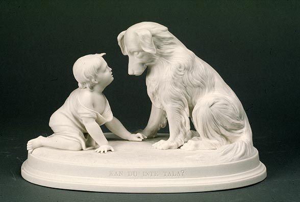 Photo from the 1880 of the sculpture "Kan du inte tala", made in the 1850's by Prinsess Charlotta Eugénie (Eugenia) Augusta Amalia Albertina Bernadotte, and prodused by Gustavsbergs porslinfabrik.